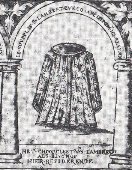 Treasury of the Basilica of Our Lady, Maastricht, Netherlands. Detail of a display form (Dutch: toningsformulier), listing the main relics of the church (early 17th c., probably 1607). Here: the robe of St. Lambert, bishop of Maastricht.